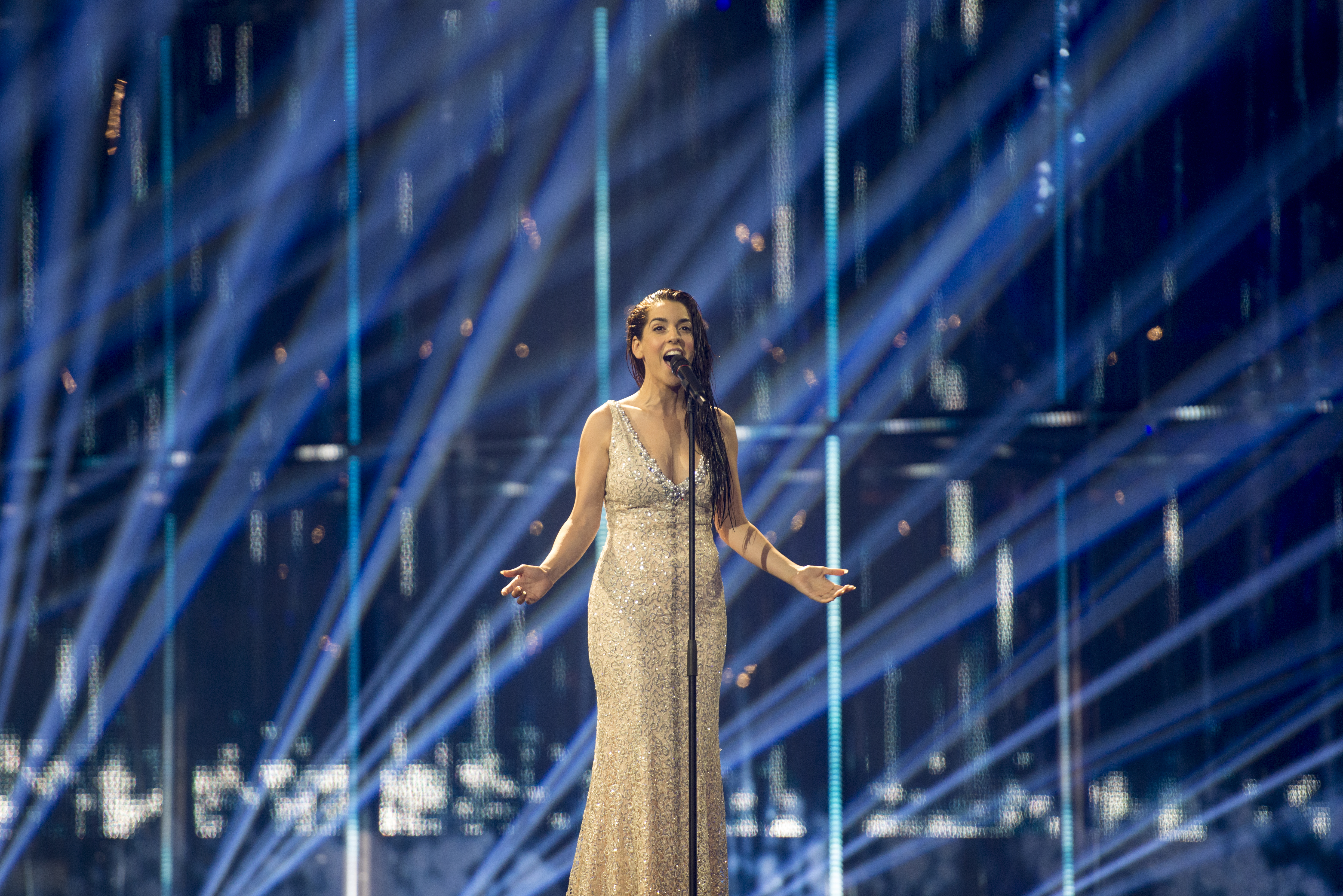 Ruth Lorenzo representing Spain with the song "Dancing in the Rain" during the first dress rehearsal of the final of the Eurovision Song Contest 2014 Copenhagen. (Help translate this text)